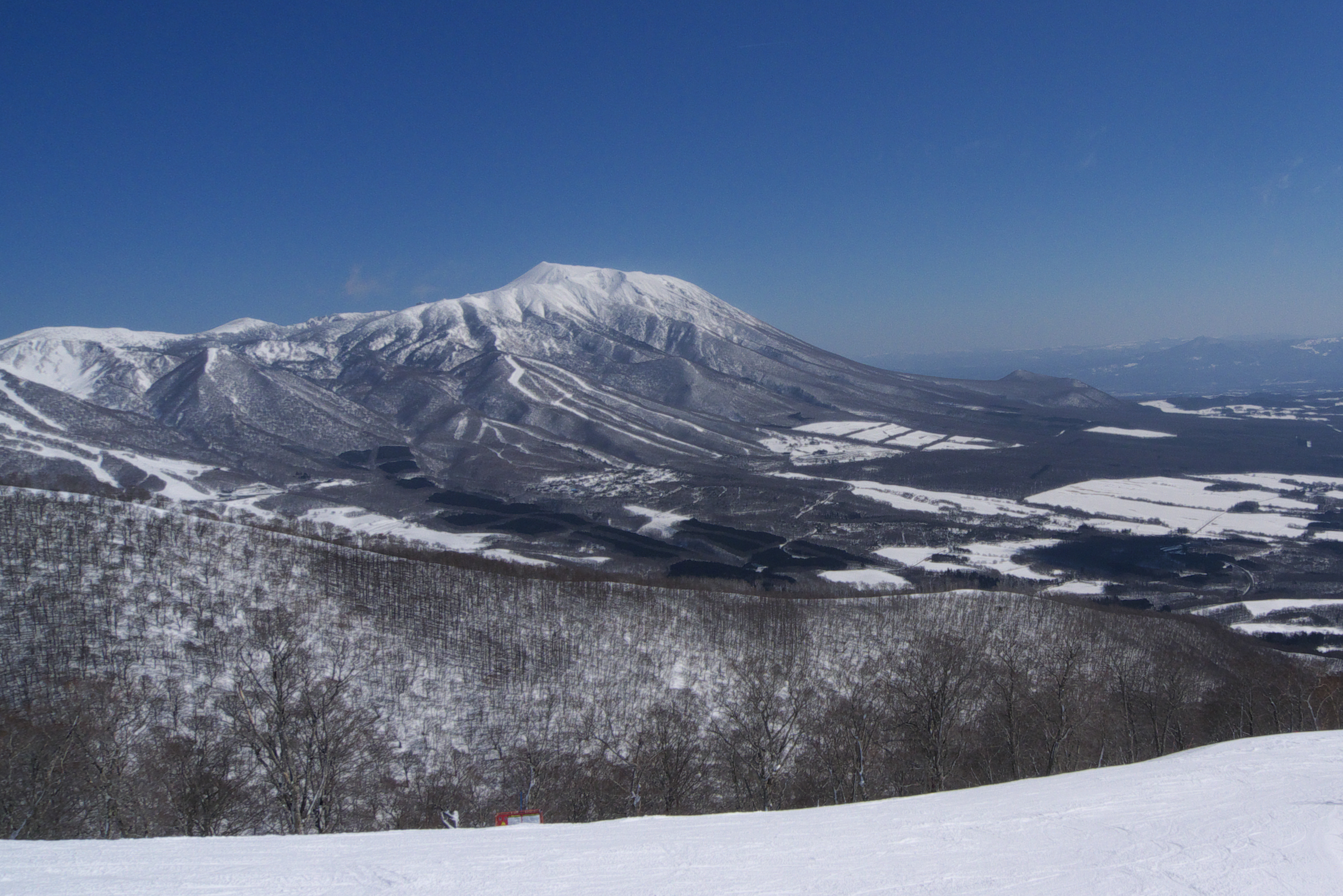 Mount Iwate and Mount Kurakake as seen from Shizukuishi Ski Area in Shizukuishi Town, Iwate Prefecture, Japan